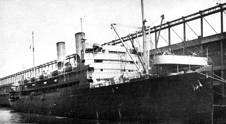 USAT Siboney (U.S. Army Transport) Halftone reproduction of a photograph taken while the ship was in port, circa 1942-1943. In 1944 she became the U.S. Army Hospital Ship Charles A. Stafford and was reboilered, with her original two smokestacks replaced by a single unit. In 1918-1919 this ship served as USS Siboney (ID # 2999). Copied from the book "Troopships of World War II", by Roland W. Charles.